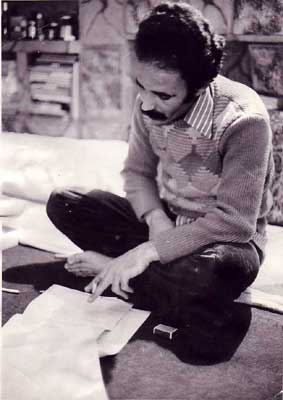 Houshang Golshiri reading one of his stories